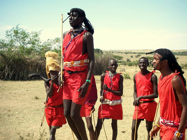 Maasai warriors jumping